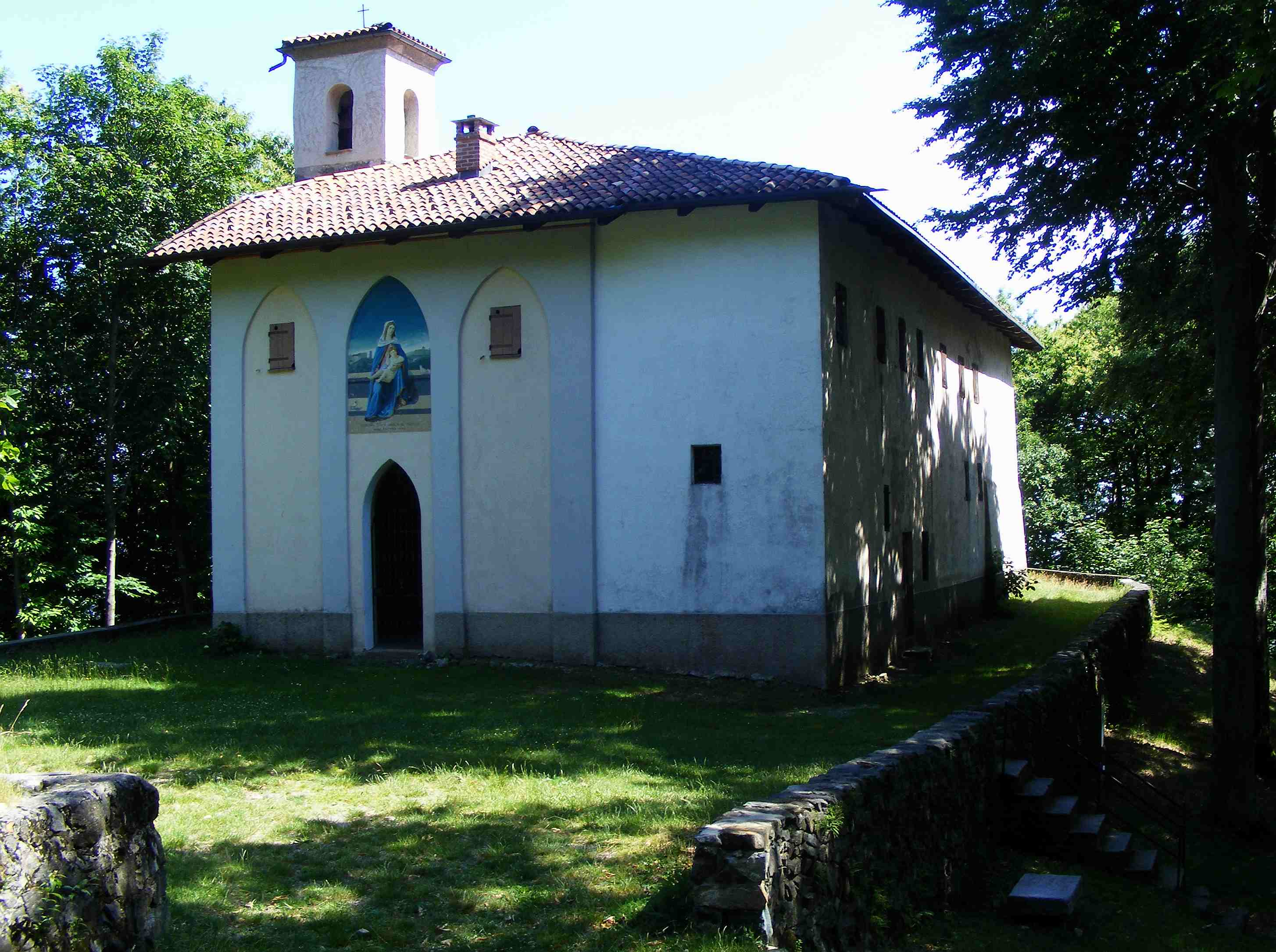 Mazzucco sanctuary (BI, Italy)